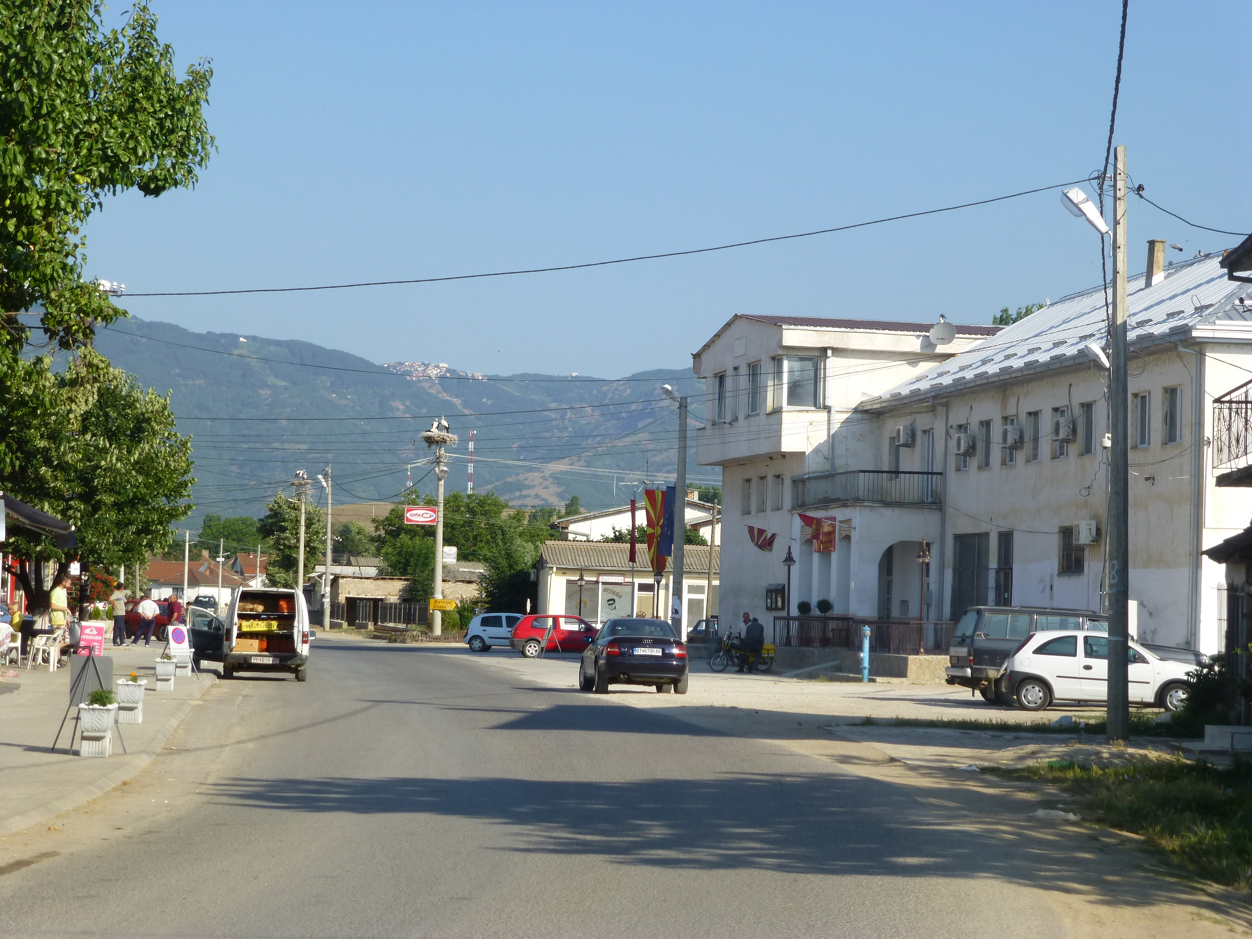 The village of Krivogashtani in Macedonia. Plenty of storchs nest there!